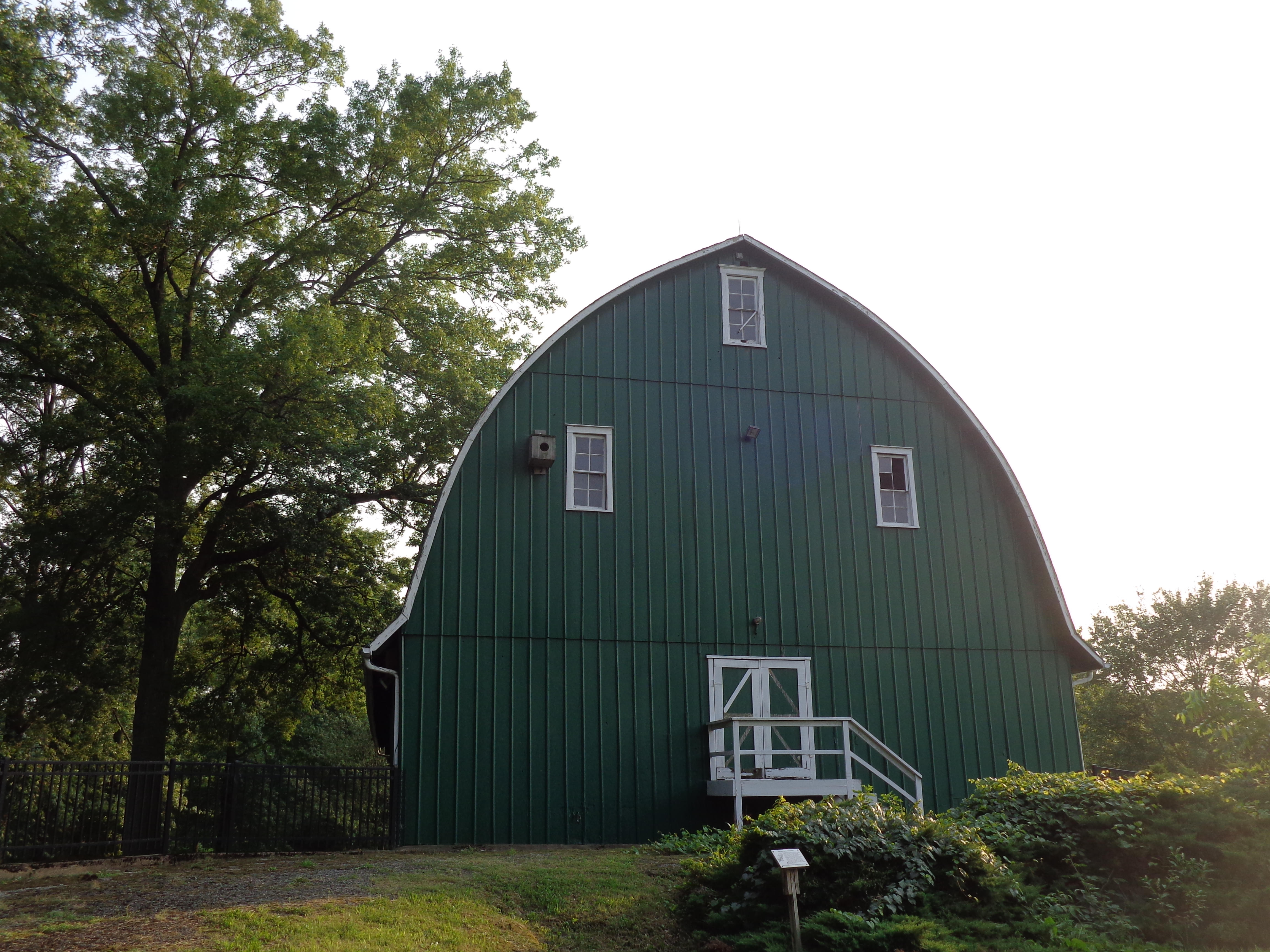 One of Bellevue State Park's distinctive green barns.